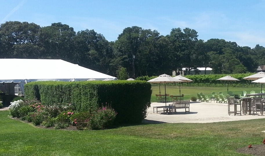 A picture of the patio area at Hawk Haven Vineyard & Winery in Rio Grande, NJ. Hawk Haven permits customers to picnic and bring pets.